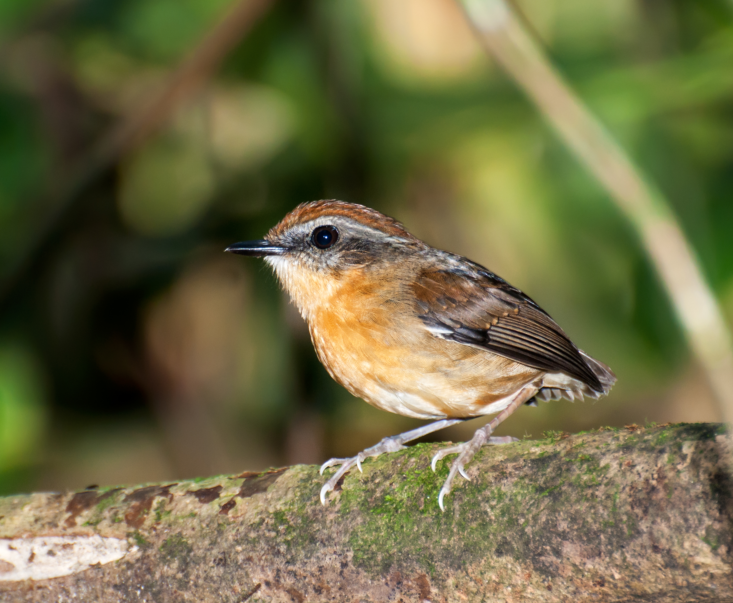 A female Black-cheeked Gnateater in Vale do Ribeira, Juquiá, São Paulo, Brazil.